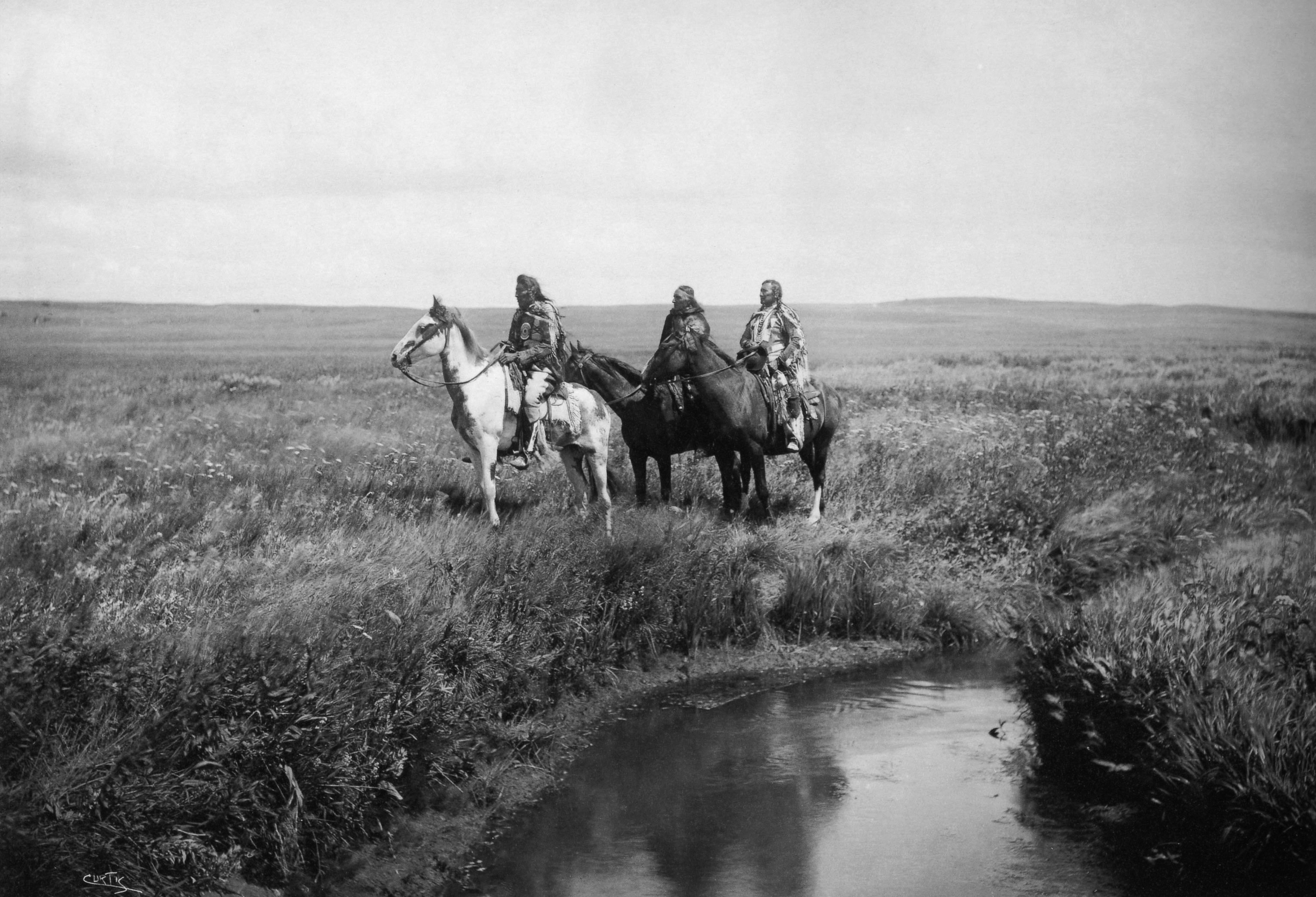 See the original image